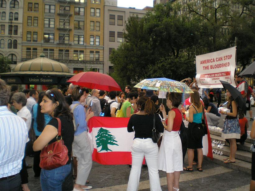 New York City: Union Square protest of Israeli action in Lebanon after the bombing of the city of Qana during the 2006 Israel-Lebanon conflict.